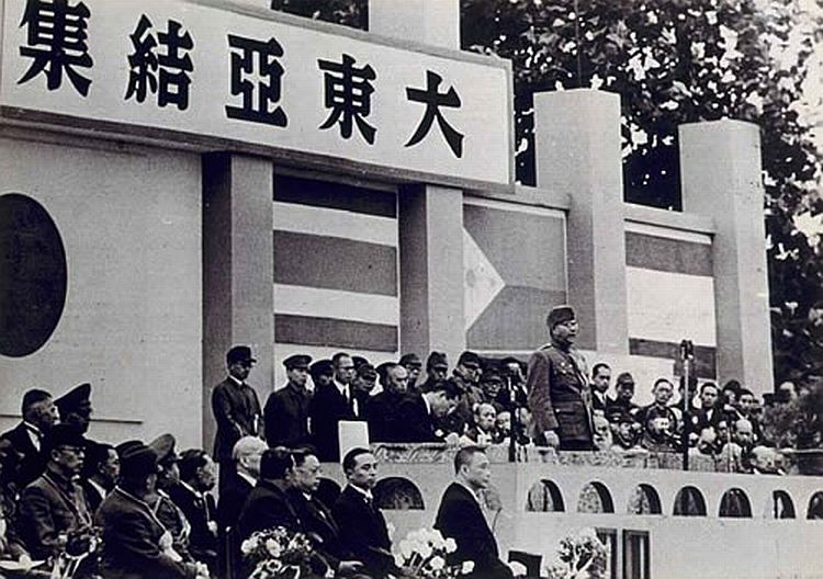 Subhas Chandra Bose speaking at the Greater East Asia Conference in Tokyo, November 1943 author:unknown Downloaded from the British Library Collection on Indian Independence